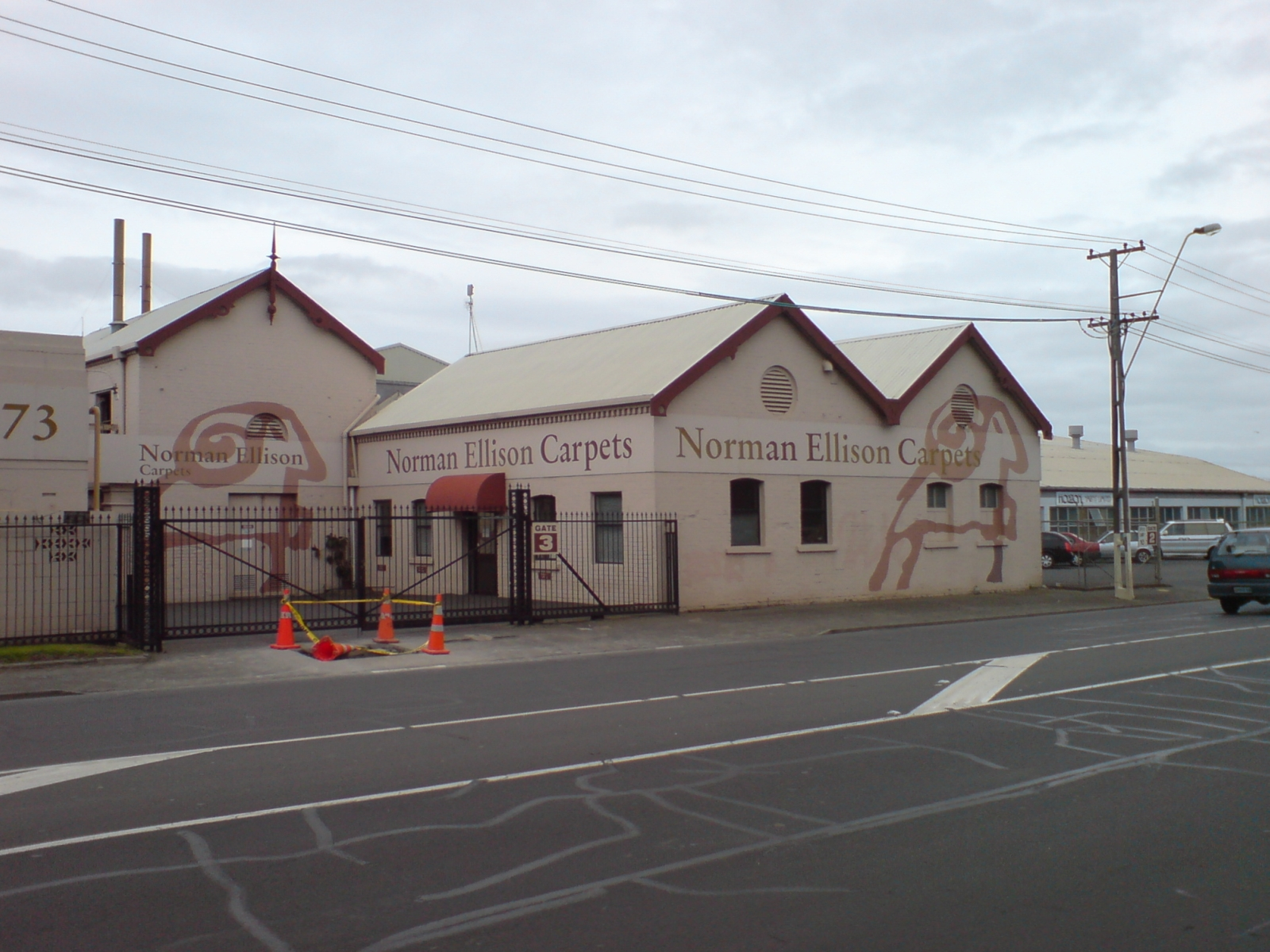 A carpet factory / seller in Onehunga or Te Papapa (gets hard to tell sometimes, without official boundaries, but it seems more Te Papapa-ish from Google Maps) in Auckland City, New Zealand.